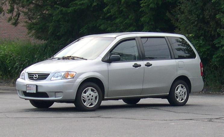 2000 Mazda MPV Source: Photo by User:Sfoskett